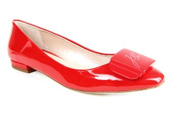 ballerine JBM